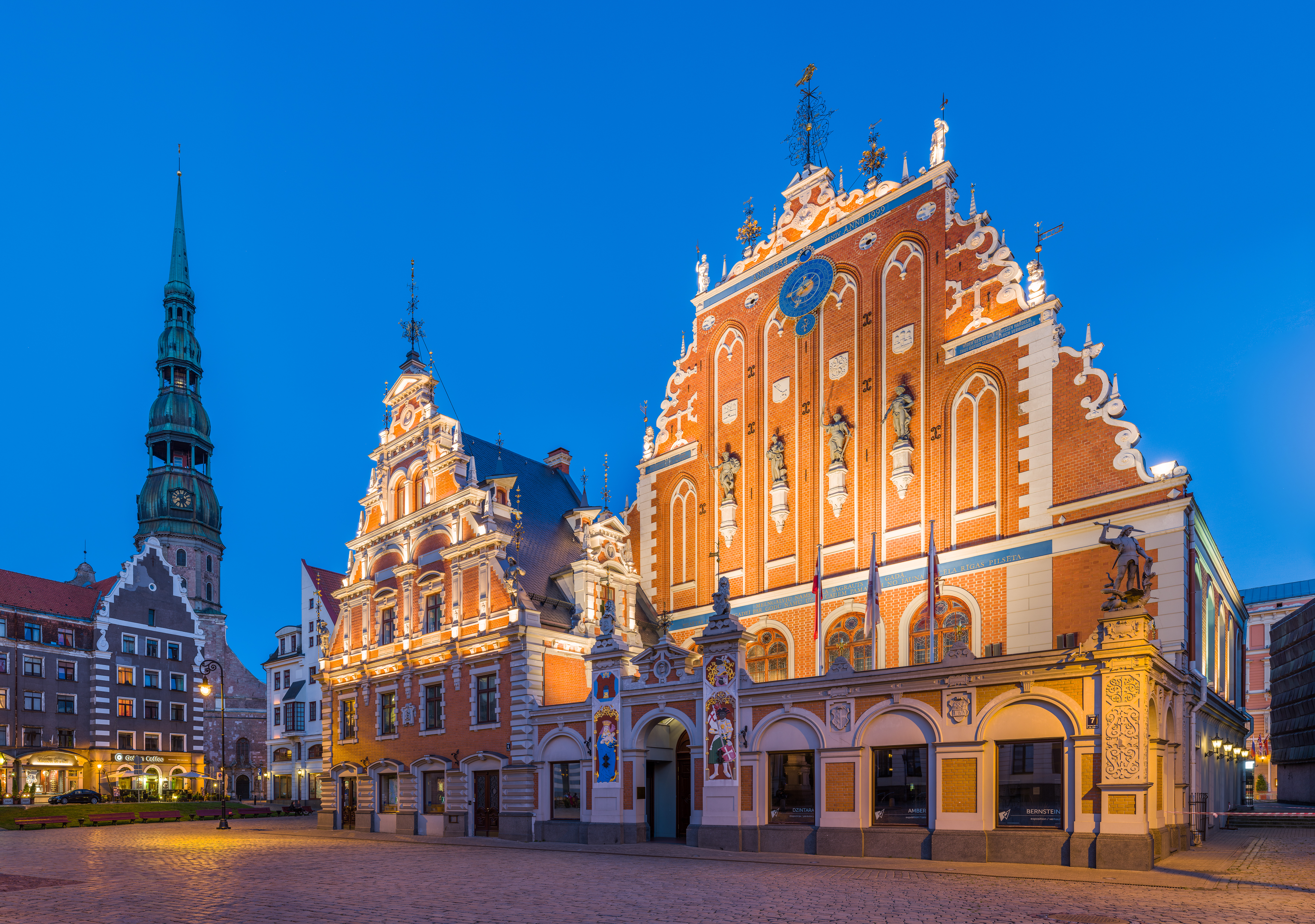 House of Blackheads and St. Peter's Church Tower at dusk, Riga, Latvia.